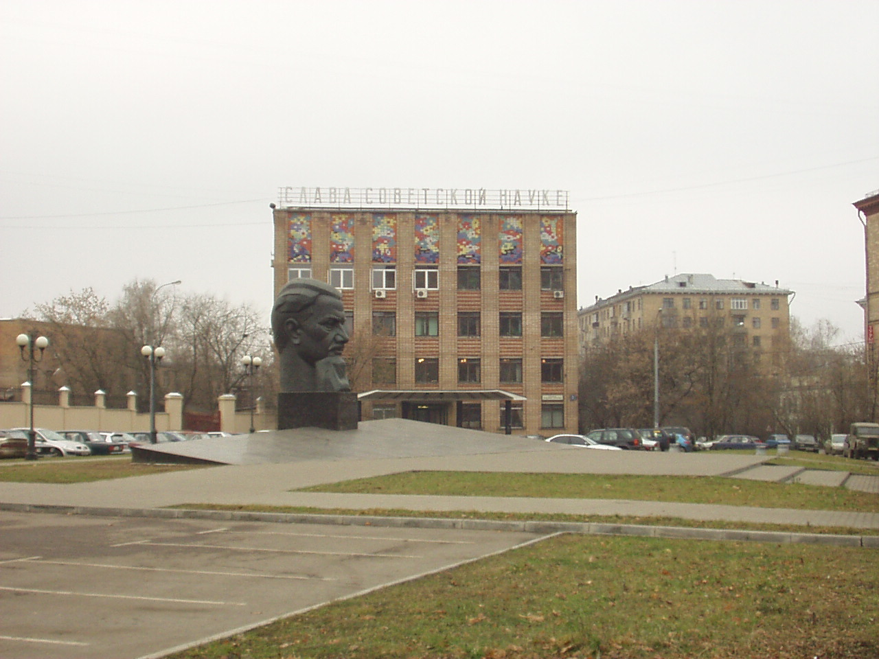 Entrance of Kurchatov Institute in Moscow with monuiment to Kurchatov